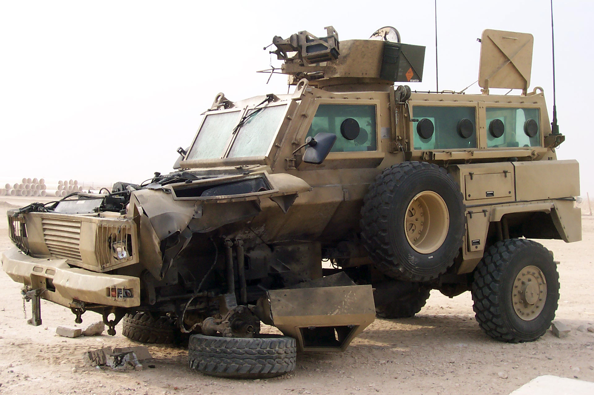 RG-31 damaged by a mine in Iraq on 2006 January 6 Original caption reads: "CAMP TAQADDUM, Iraq (Jan. 7, 2006) – An RG-31 Cougar rests on its front axel after an improvised explosive device detonated under the vehicle here Jan. 6. The IED detonated directly under the vehicle; however, because the vehicle was an RG-31, the blast was pushed outward instead of directly straight up due to the unique “V” –shaped undercarriage. Of the five service members in the vehicle, two received concussions and two others received minor burns.